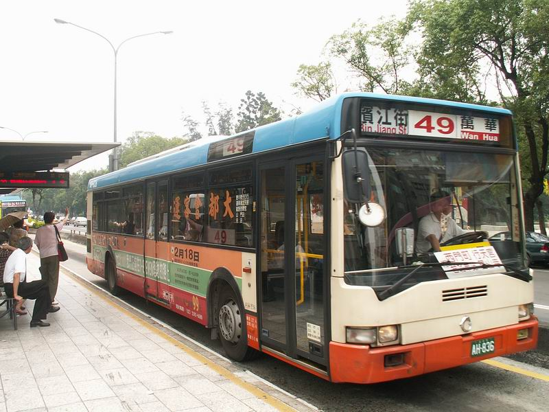 Metropolitan Transport Corporation imported low chassis bus at 2002.